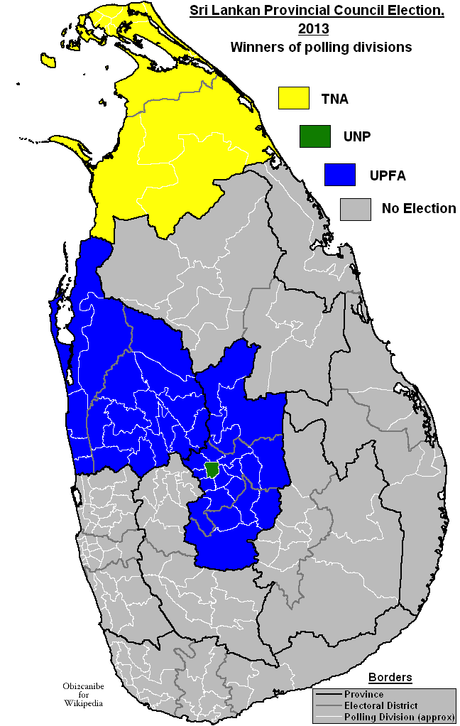 Map showing winners of polling divisions in the Sri Lankan provincial council election of 2013.